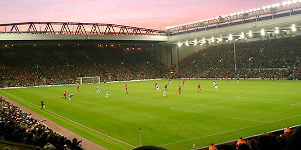 View of inside Anfield Stadium from Anfield Road Stand during a Liverpool-Portsmouth match